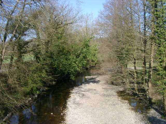 Afon Bran River Bran. Photo taken from bridge on A483.